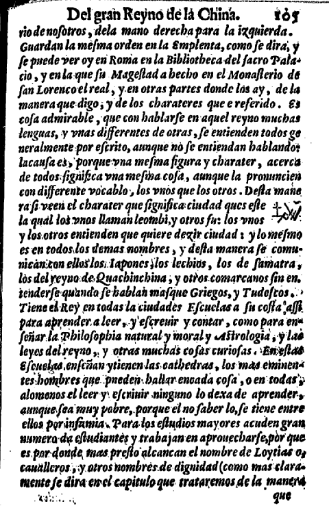 Page 134 (Part I, Book III, Chapter XIII) of Historia de las cosas más notables, ritos y costumbres del gran reyno de la China by Juan González de Mendoza. The first edition, 1585. This is possibly the first European book that gives (or, rather, attempts to give) examples of Chinese characters. This page gives a character for "city", presumably a (very poorly written) 城. This is discussed in the footnotes 1853 Hakluyt Society annotated edition of the 1588 English translation.